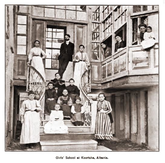 Girls' school at Korça